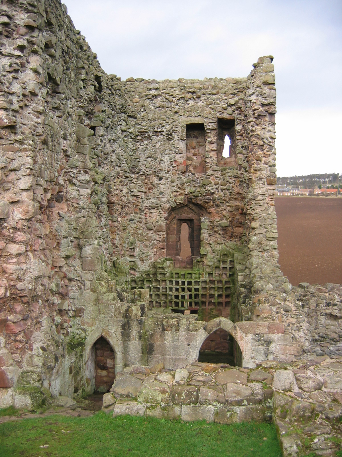 East tower of hailes Castle, East Lothian, Scotland.